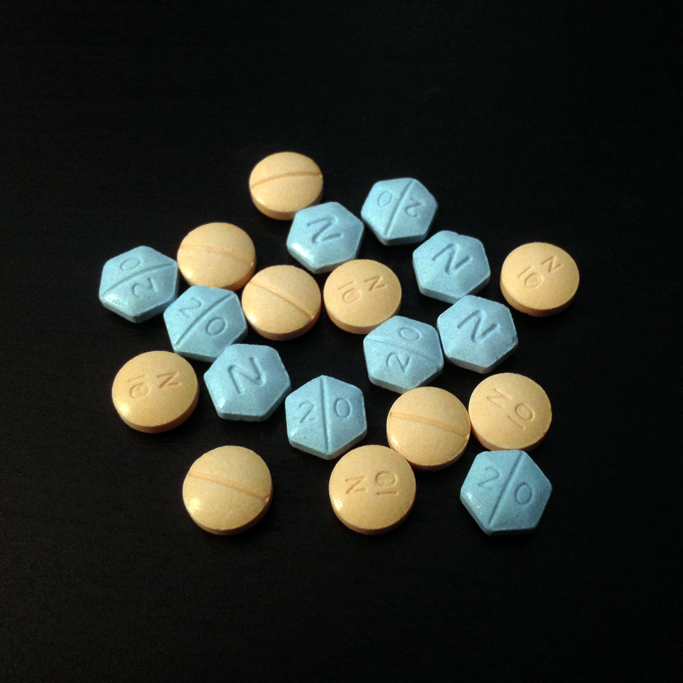 A mixture of 20mg and 10mg propranolol tablets. The 20mg tablets are blue, both types are generic Novopharm (Teva) instant-release tablets. The brand name for this drug is Inderal, but the instant-release formulation is only available as a generic (in Canada at least). Propranolol instant-release should not be confused with propranolol extended-release (branded as Inderal LA, but also widely available as a generic). The dosages of instant-release propranolol and extended-release propranolol cannot be directly compared/converted in terms of frequency or size because the pharmacokinetics of the extended-release propranolol are significantly different from the pharmacokinetics of instant-release propranolol.